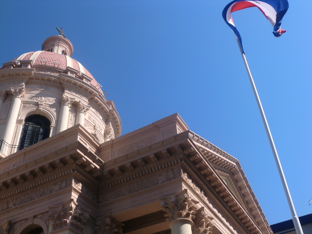 Heros' National Pantheon in Asunción